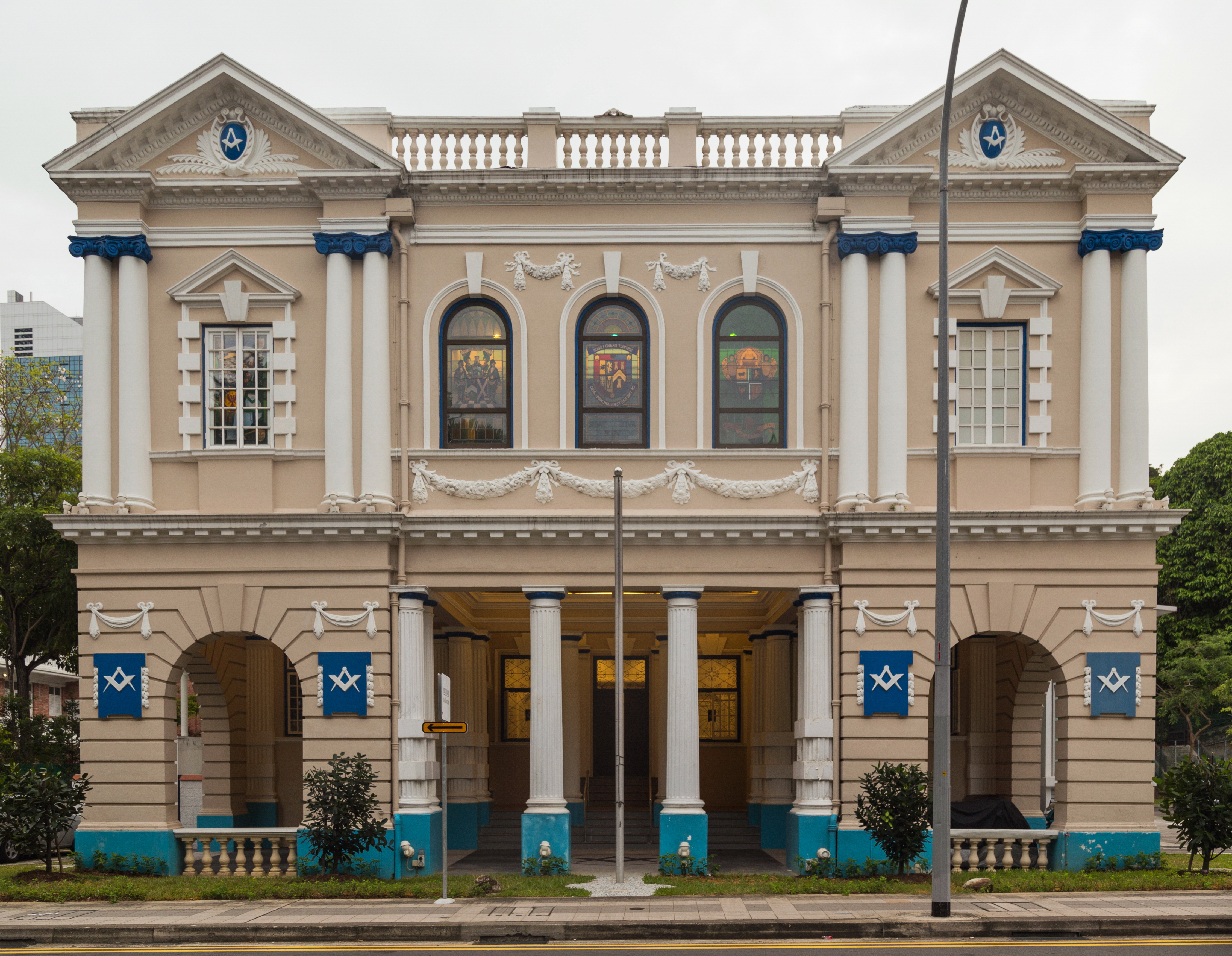 Freemasons' Hall. Museum Planning Area, Central Region, Singapore.